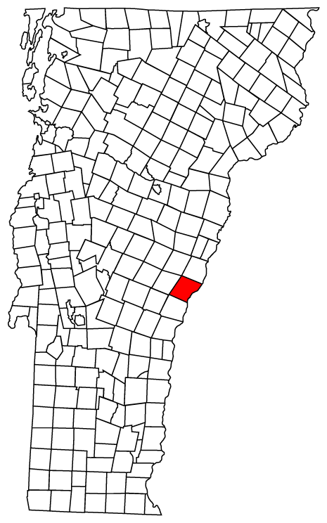 Description: Map of Vermont towns with Norwich highlighted Source: Map created by Jared C. Benedict on 26 March 2004. Copyright: © Jared C. Benedict.